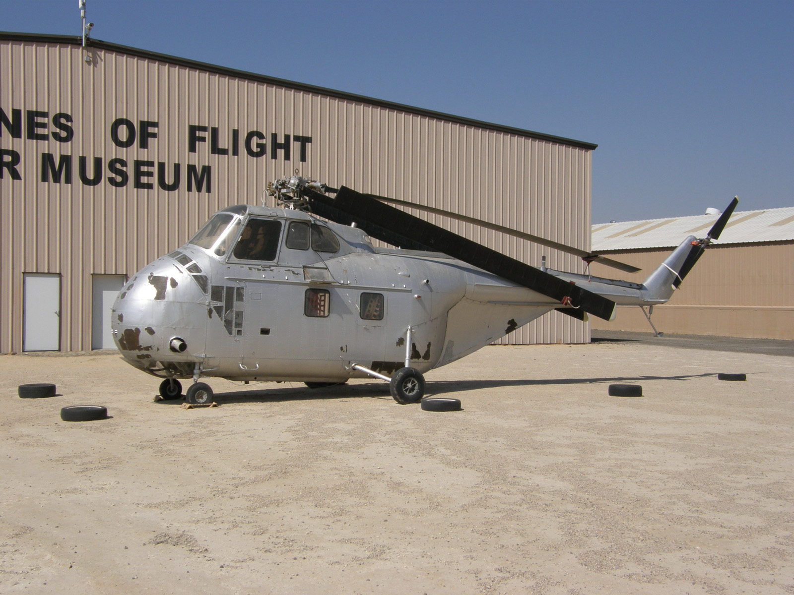 Sikorsky H-19 at the Milestones of Flight Museum, Lancaster, California